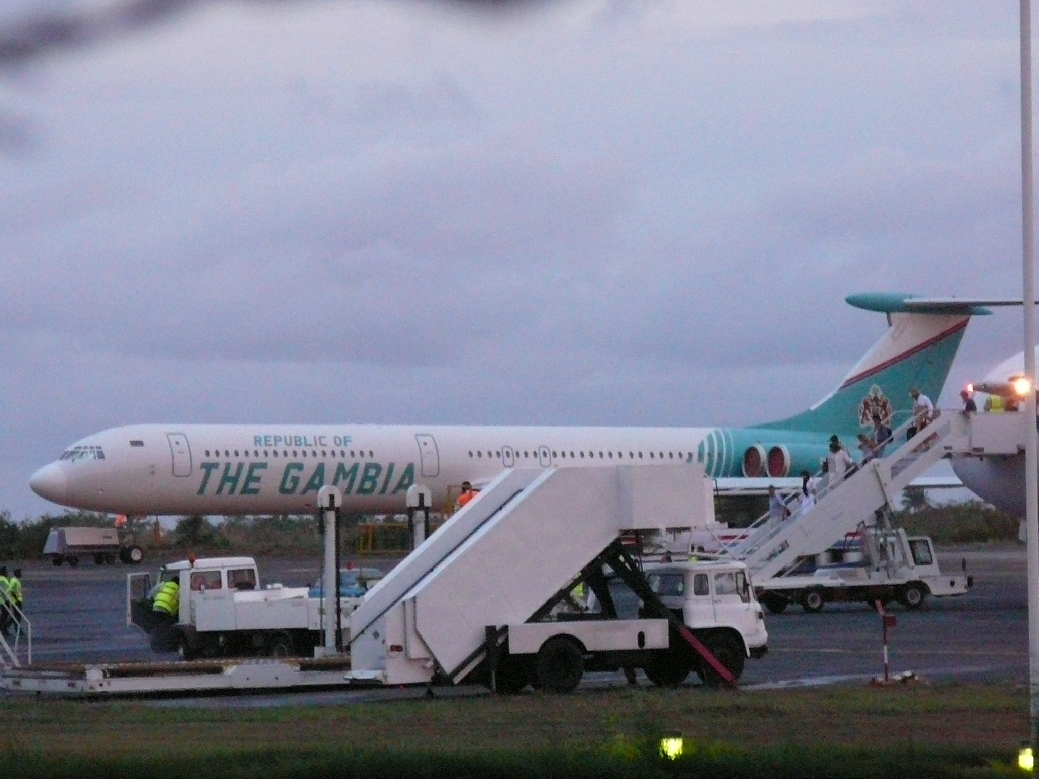 Ilyushin Il-62 used by the president of the Gambia at Banjul International Airport